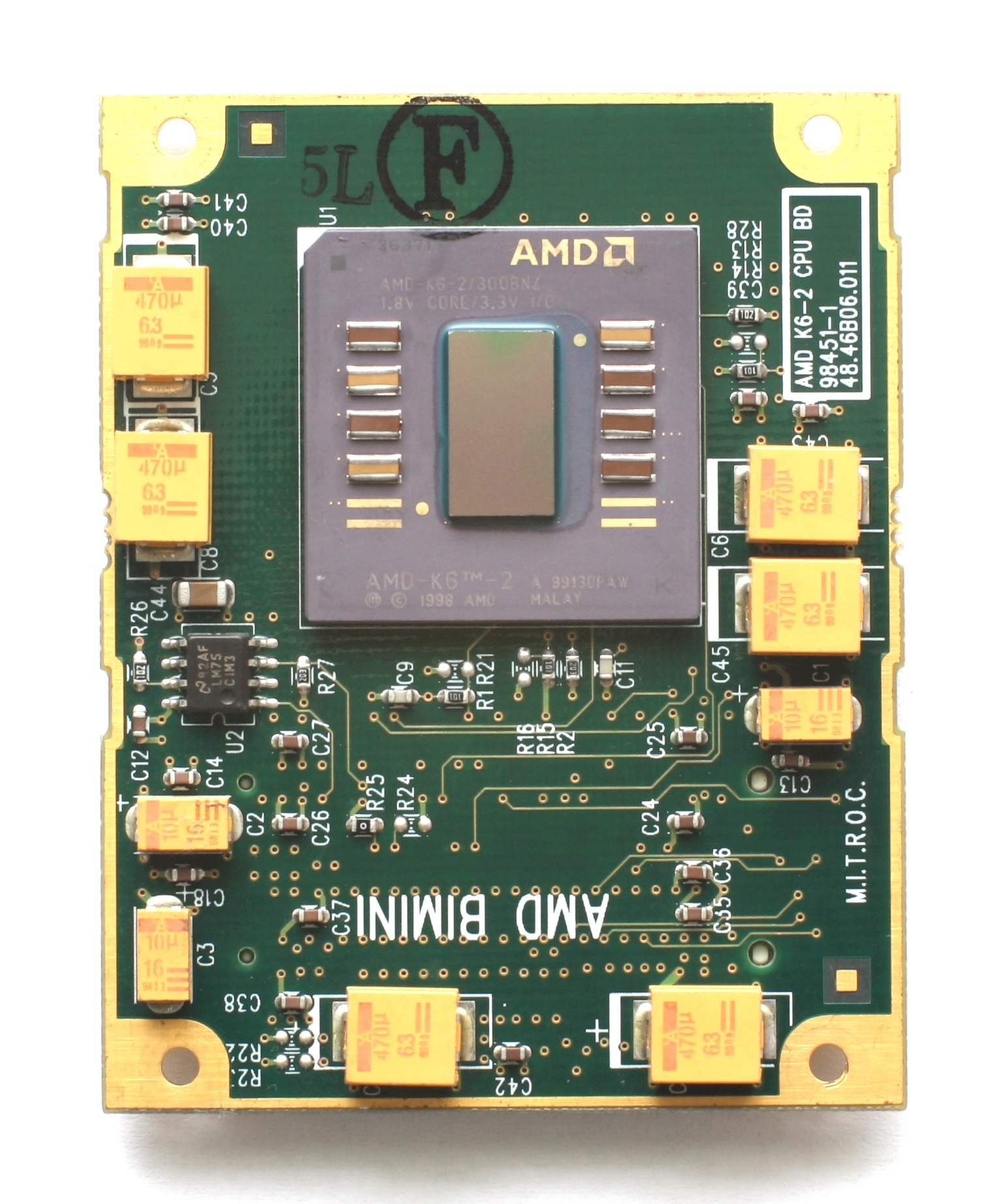 CPU Board AMD Bimini with Mobile AMD K6-2.